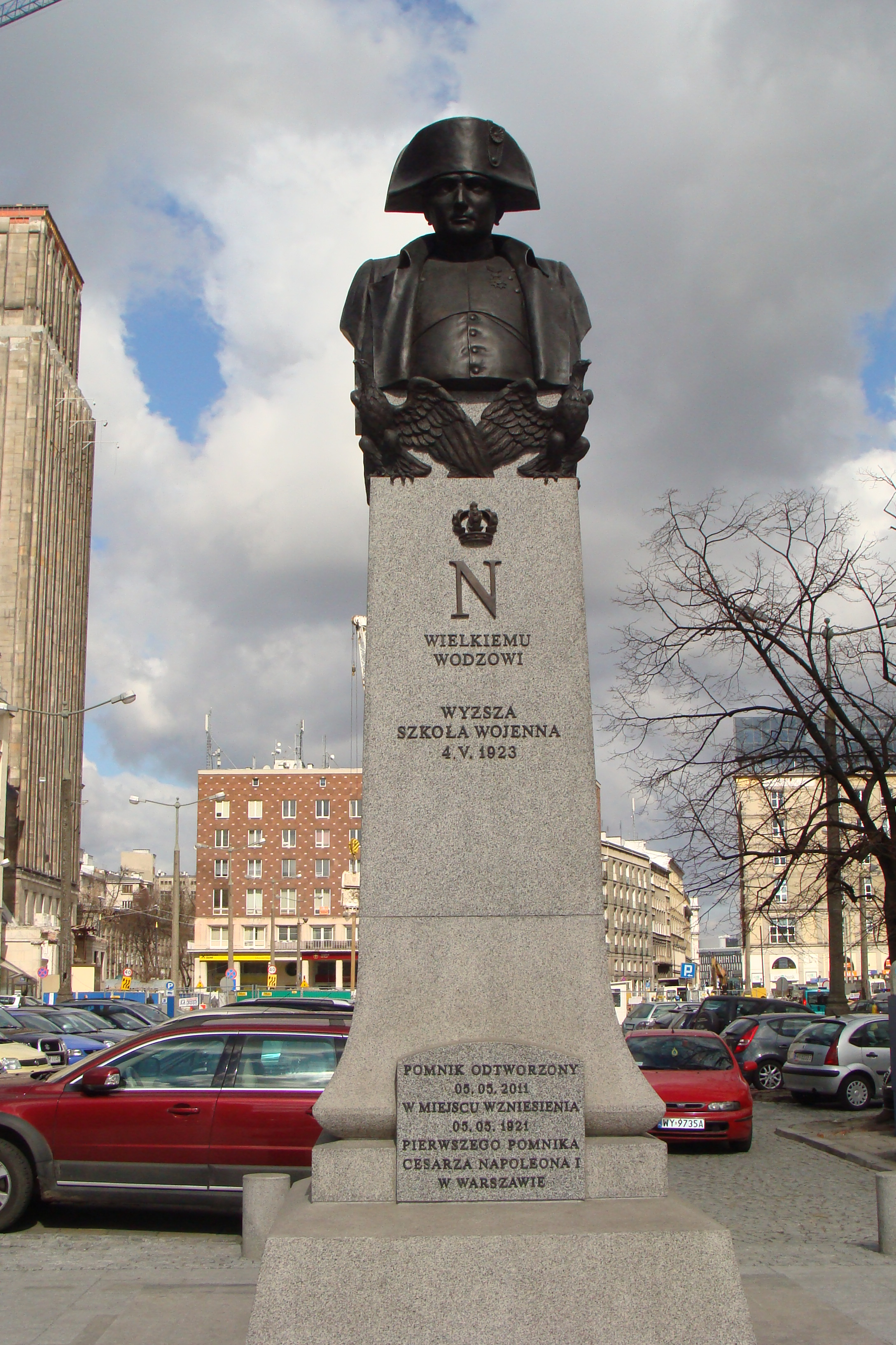 Napoleon Bonaparte monument in Warsaw, Poland